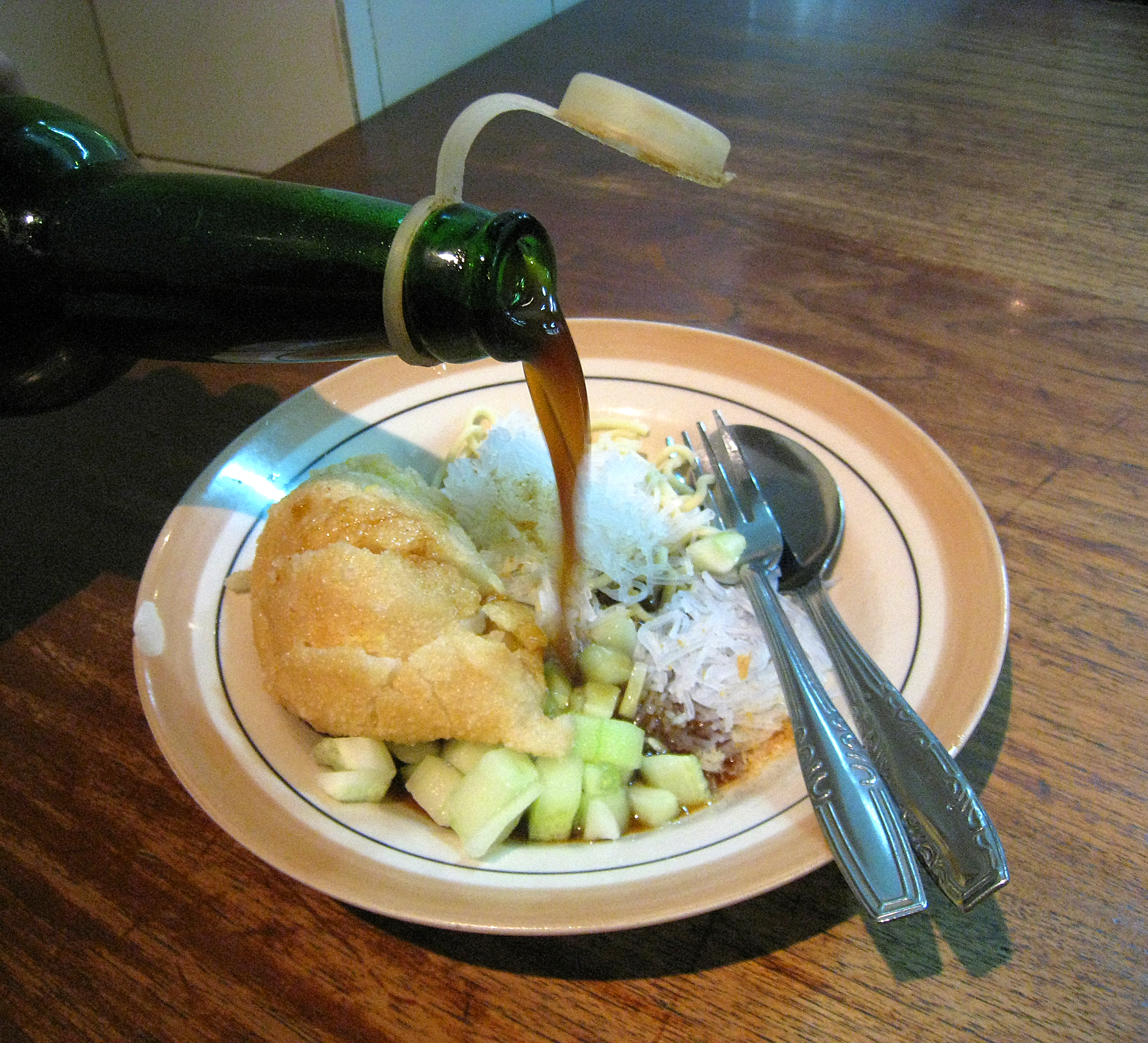 Pempek (fish cake) Kapal Selam and Kriting, simmered with Kuah Cuko (Sweet and spicy vinegar sauce).